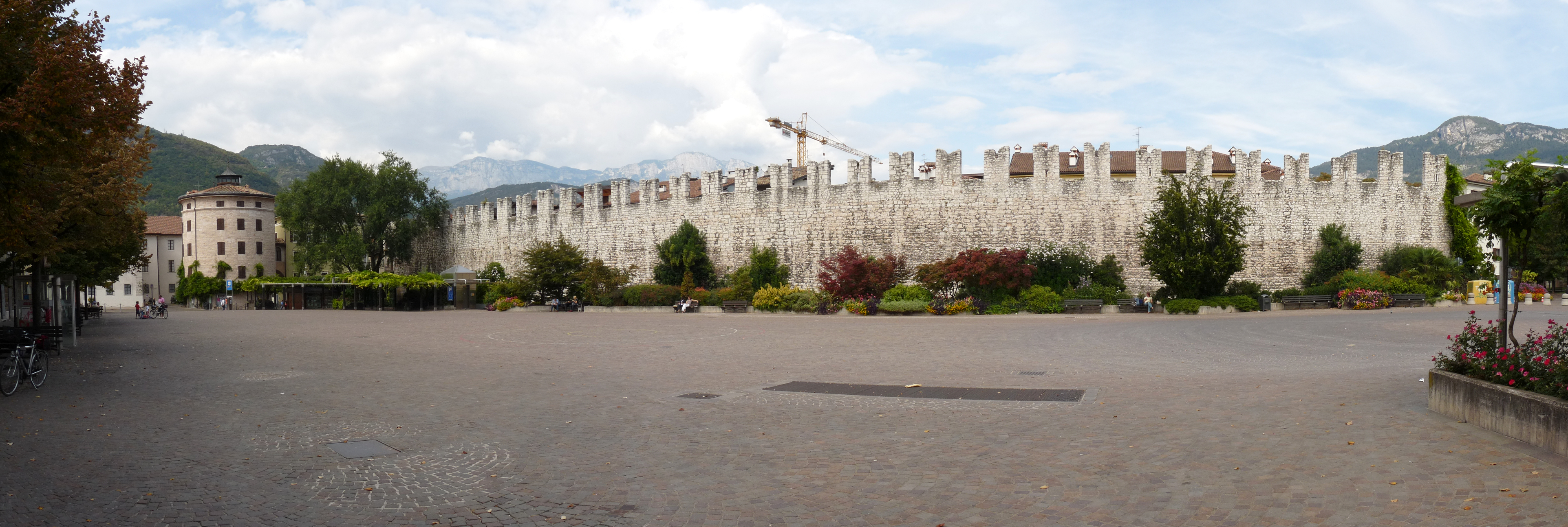 Trento (Italy): panorama of Piazza Fiera (fair's square), with the Torrione of prince bishop Cristoforo Madruzzo on the left and the medieval walls